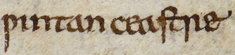 Wintanceastre; from the Anglo-Saxon Chronicle.